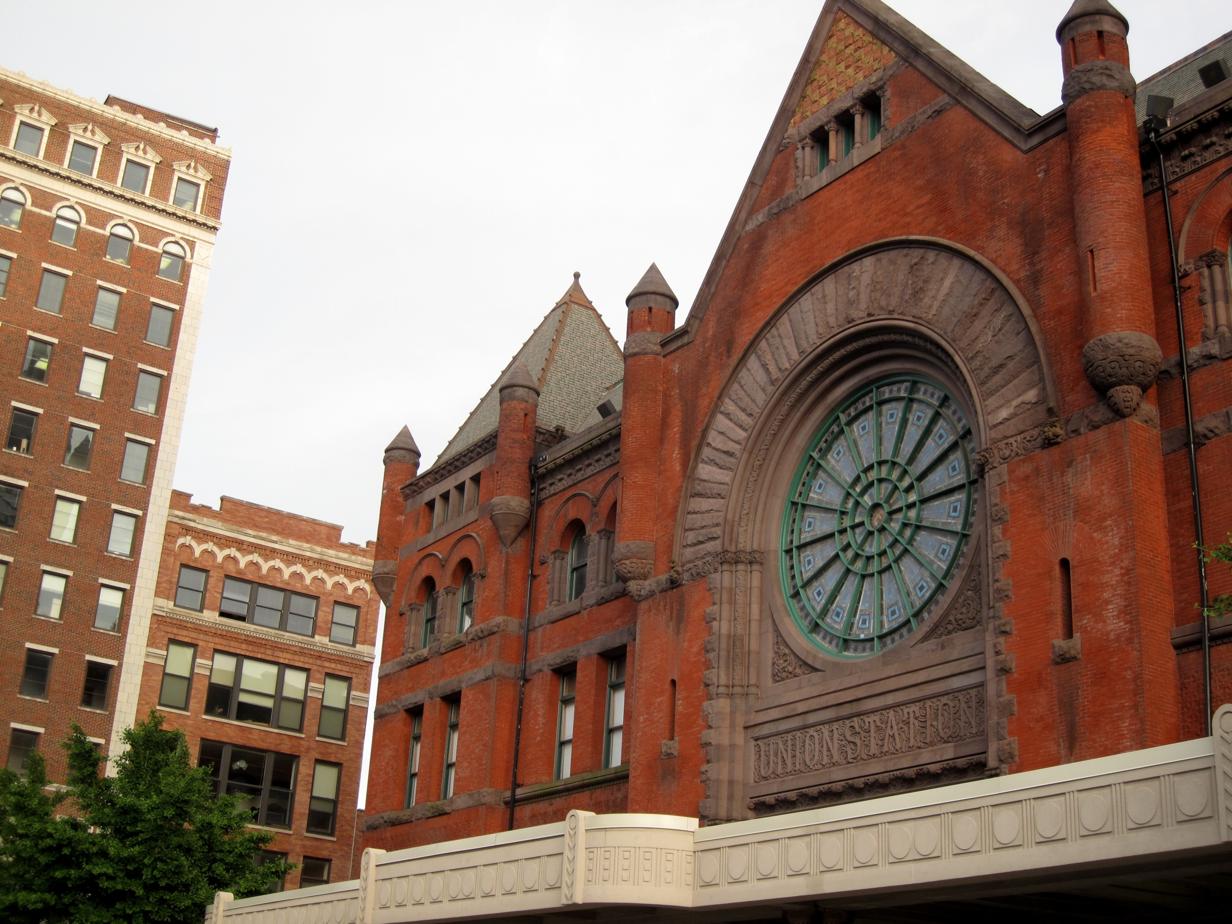 Union Station, Indianapolis.